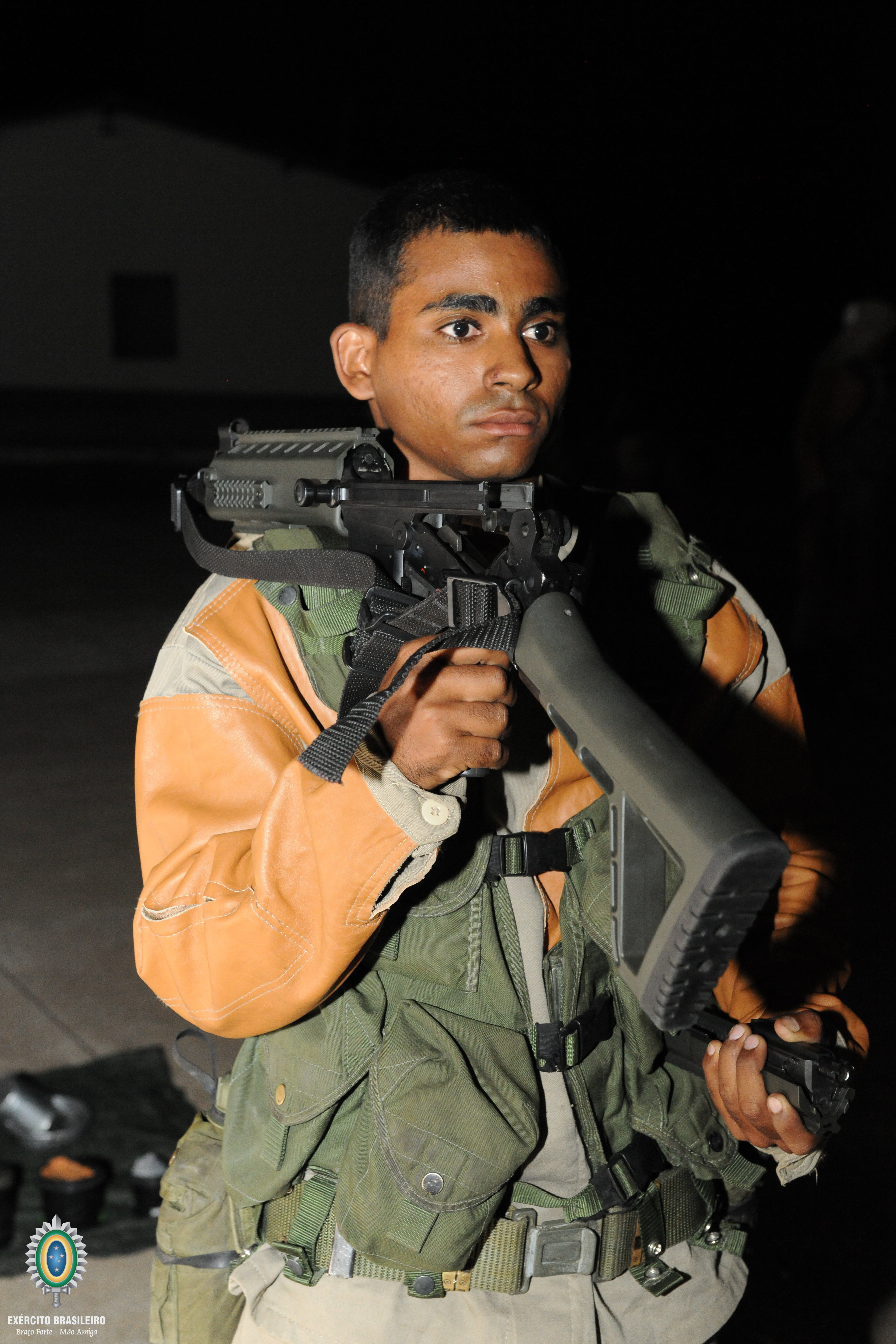 Army of Brazil: soldier operating a IMBEL IA2 rifle (72º Batalhão de Infantaria Motorizado)